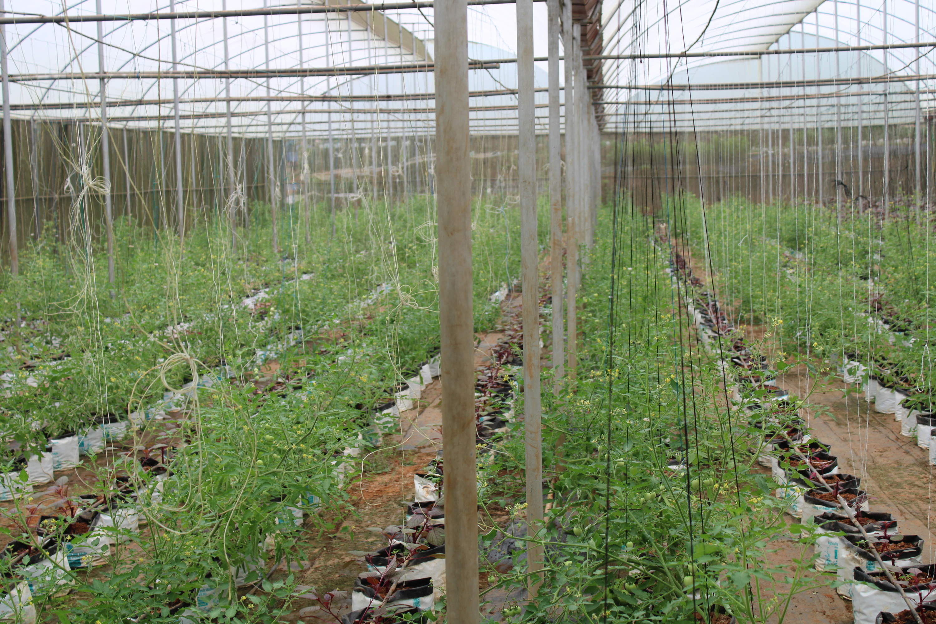 Vegetable Cultivation, Agricultural Research Station, Anakkayam